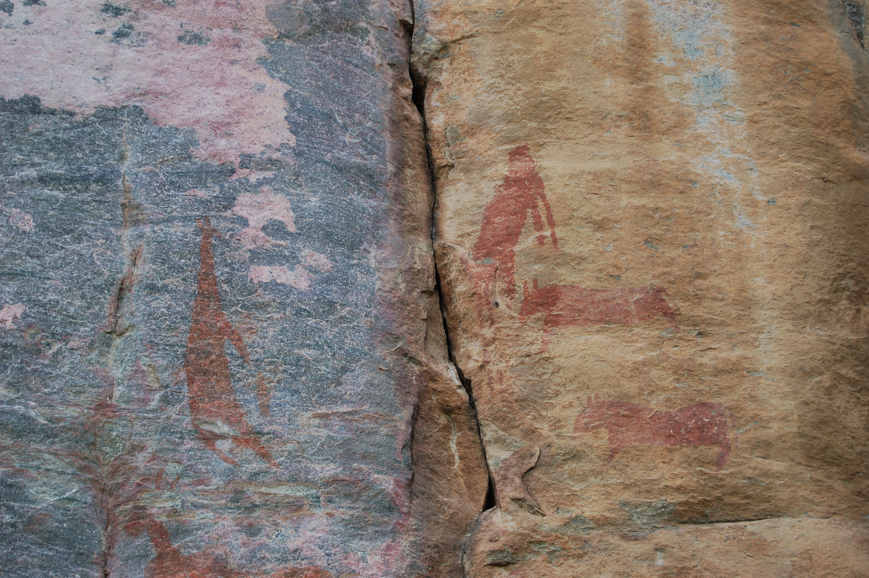 Rock paintings in Tsodilo Hills, Botswana